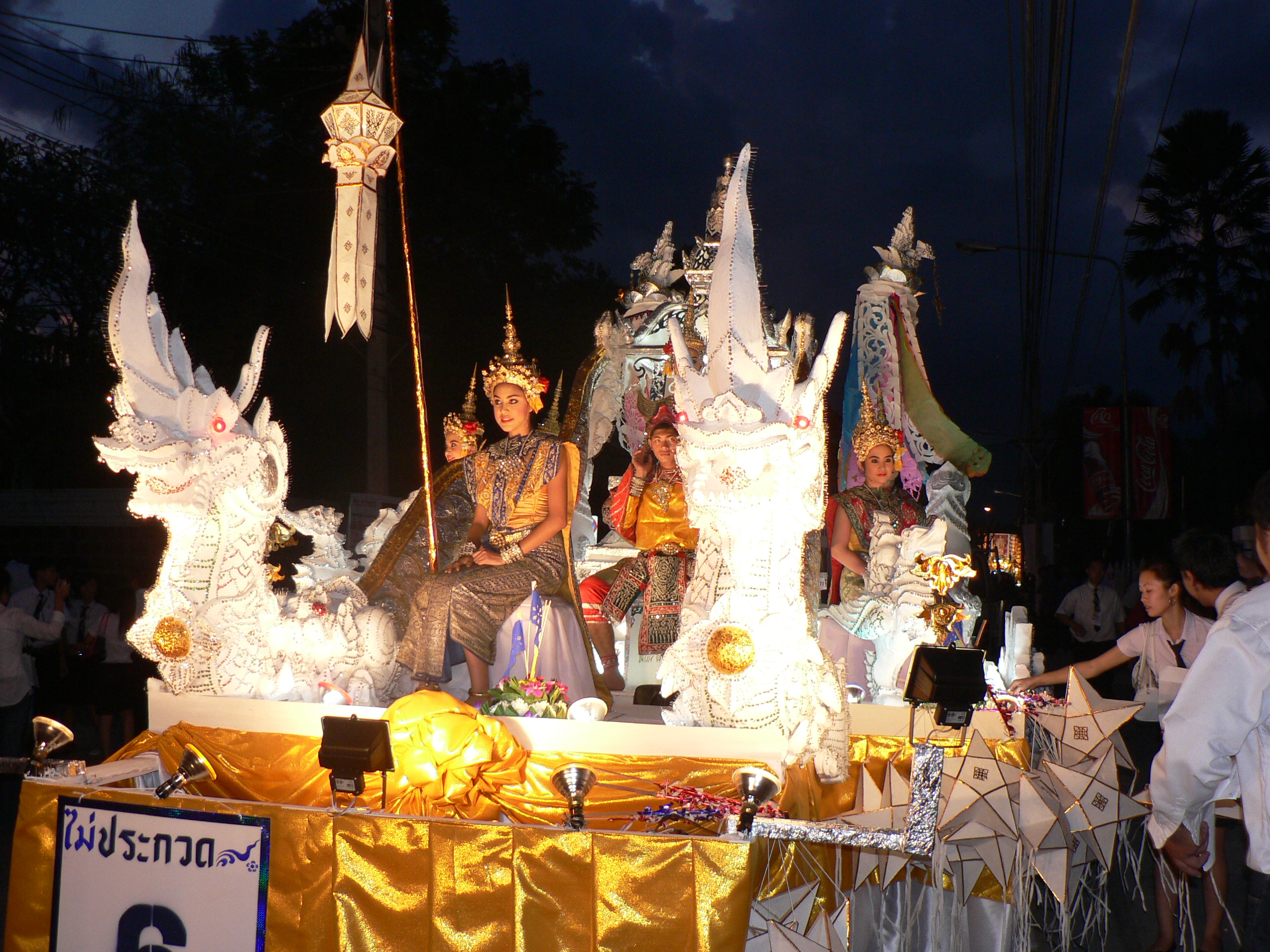 Loi Krathong, Chiang Mai 2005